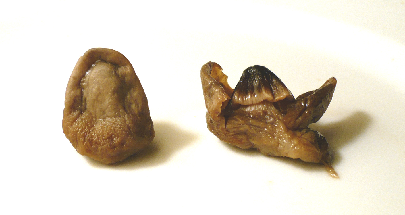 Two straw mushrooms, the one on the left unopened and the one on the right opened to reveal the cap inside. Photo taken in Kent, Ohio, United States. Photo taken with a Panasonic Lumix digital camera (model DMC-LS75). The mushrooms, which were produced in Vietnam, were purchased in frozen form in a Cleveland, Ohio Chinese grocery store.